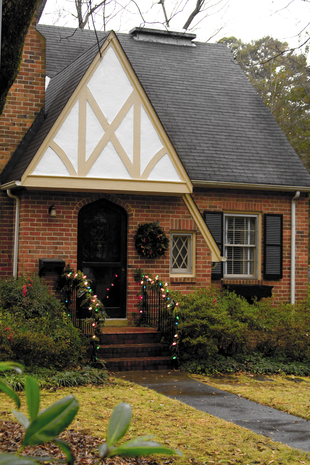 House in the West Raleigh Historic District, Raleigh, North Carolina